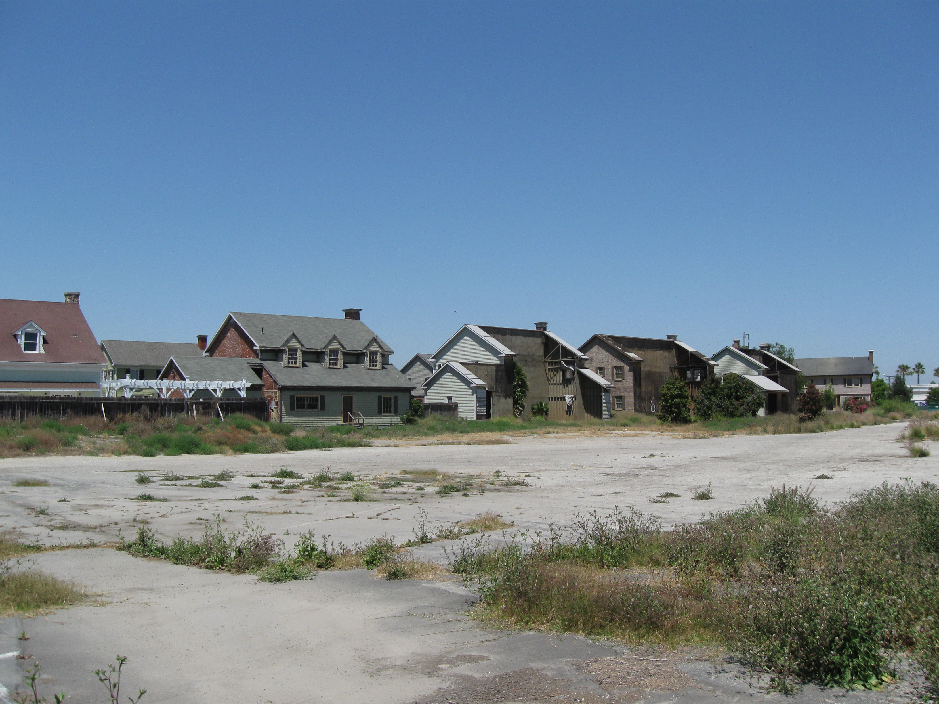 Rear of row of houses at Downey Studio